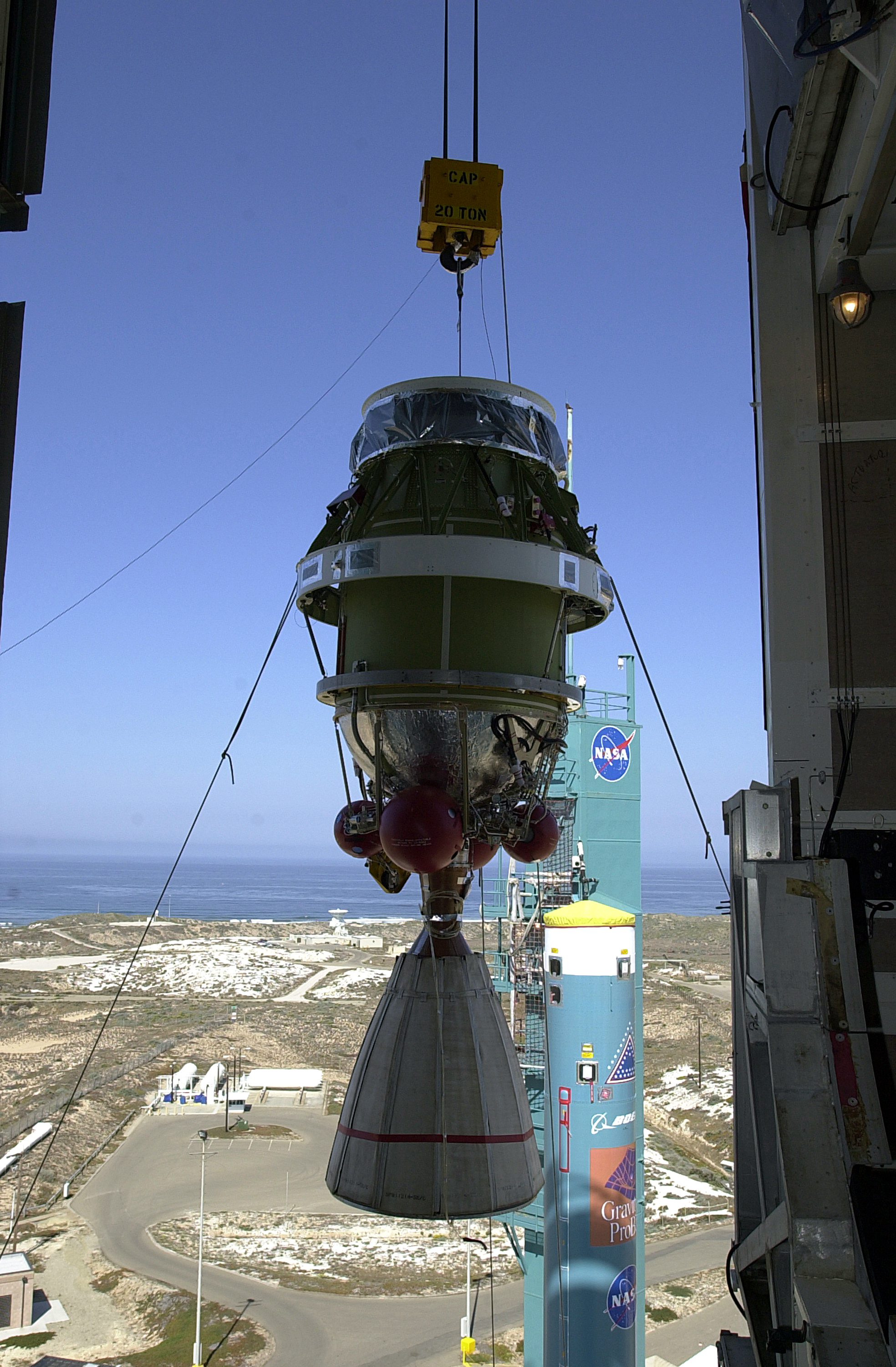 Viewed from inside, the second stage of the Delta II launch vehicle for the Gravity Probe B experiment is lifted up the mobile service tower on Space Launch Complex 2, Vandenberg Air Force Base, Calif. Behind it is the first stage of the Delta II. The Gravity Probe B will launch a payload of four gyroscopes into low-Earth polar orbit to test two extraordinary predictions of Albert Einstein’s general theory of relativity: the geodetic effect (how space and time are warped by the presence of the Earth) and frame dragging (how Earth’s rotation drags space and time around with it). Once in orbit, for 18 months each gyroscope’s spin axis will be monitored as it travels through local spacetime, observing and measuring these effects. The experiment was developed by Stanford University, Lockheed Martin and NASA’s Marshall Space Flight Center. The targeted launch date is Dec. 6, 2003.